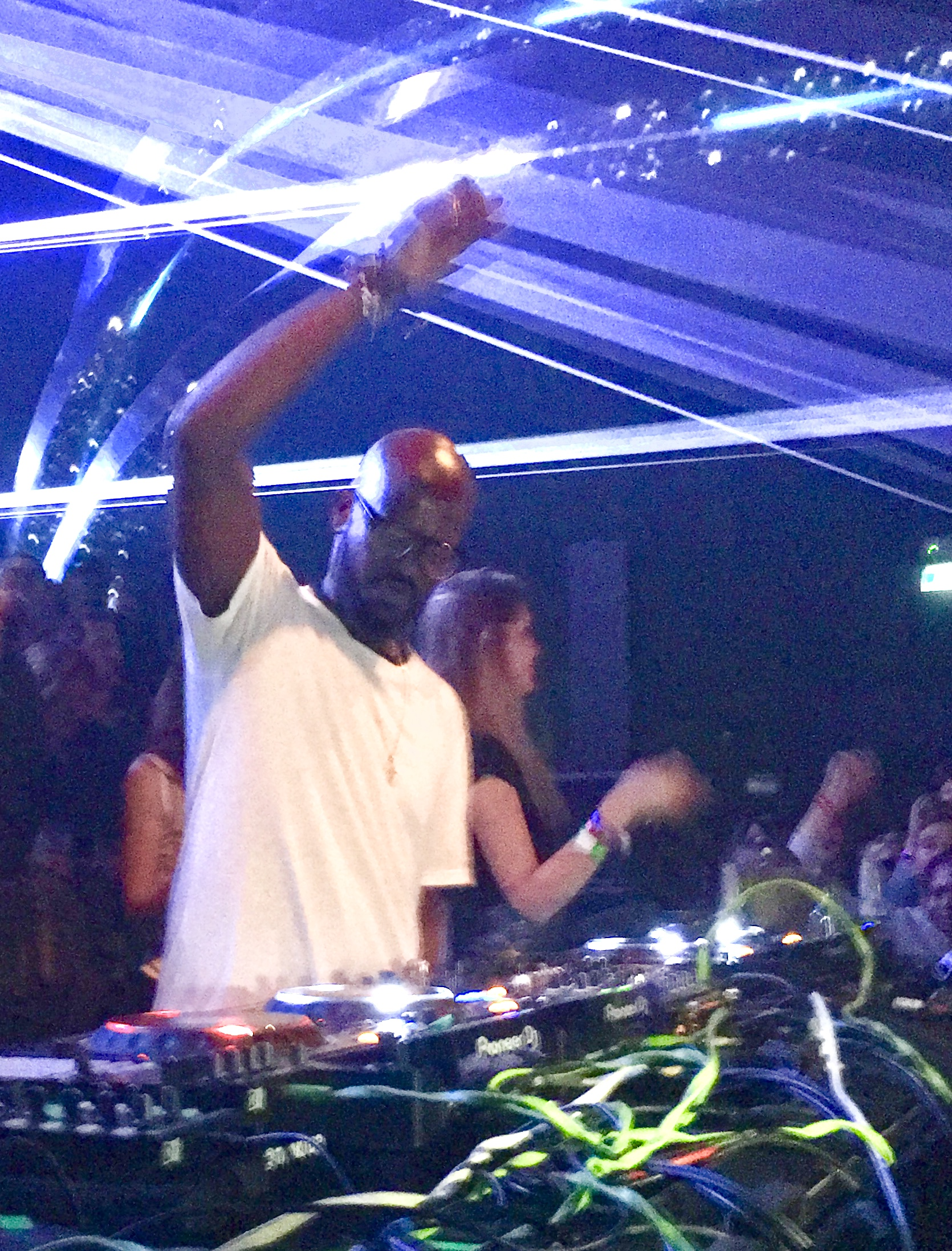 Picture of Black Coffee during a Saturday night set at the club Hï Ibiza in June 2018